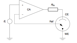 Scheme of a potentiostat